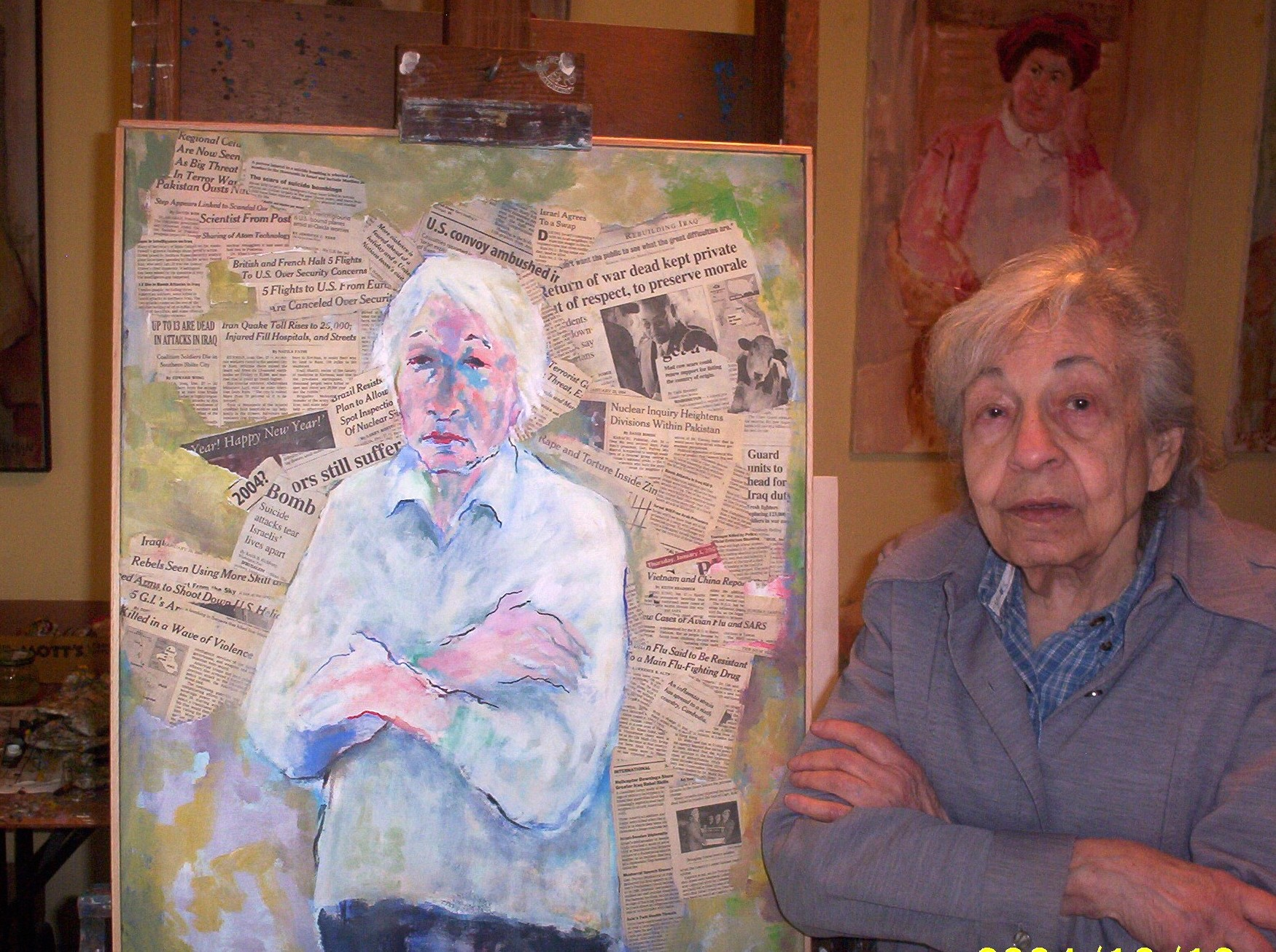 Fay Kleinman, American artist